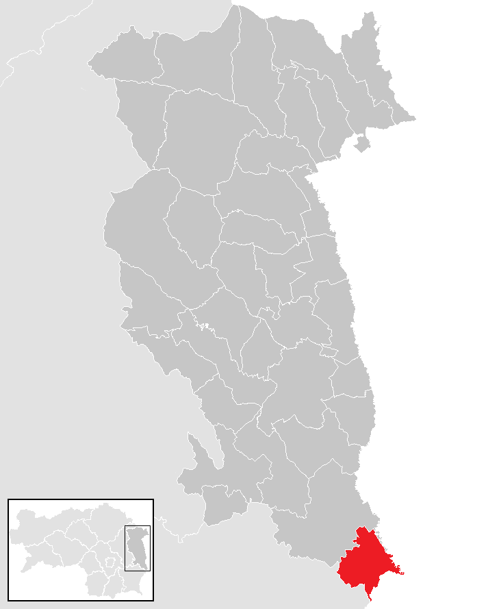 district Hartberg-Fürstenfeld